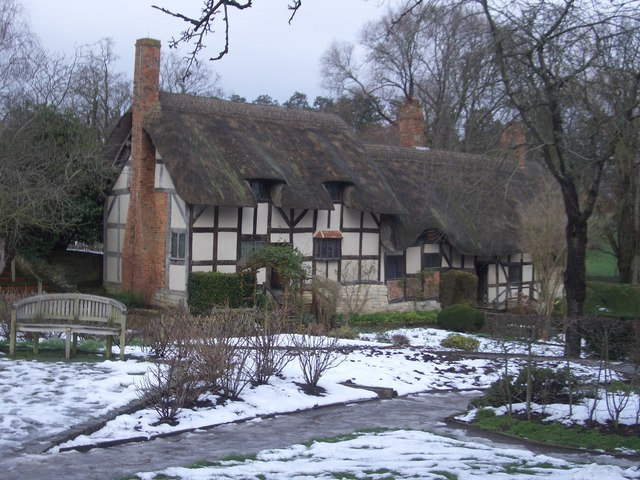 Anne Hathaway's Cottage In The Snow